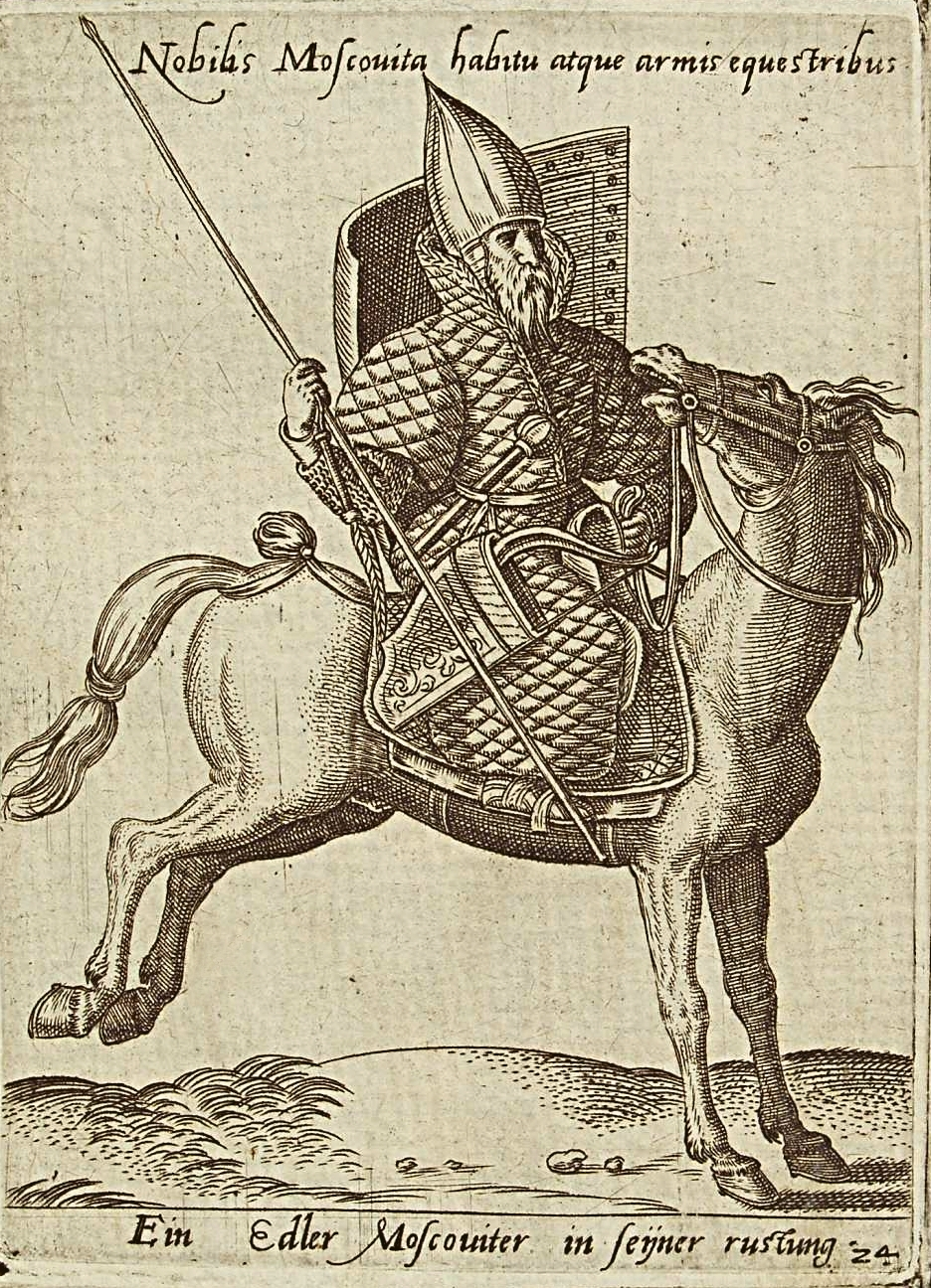 Noble Mocovit